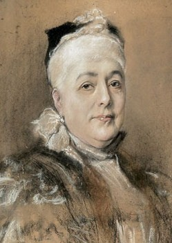 Elisabeth Franciska Archduchesse of Austria (1831–1903), widow of Karl Ferdinand †1878, daughter of Archduke Joseph Anton Johann of Austria)